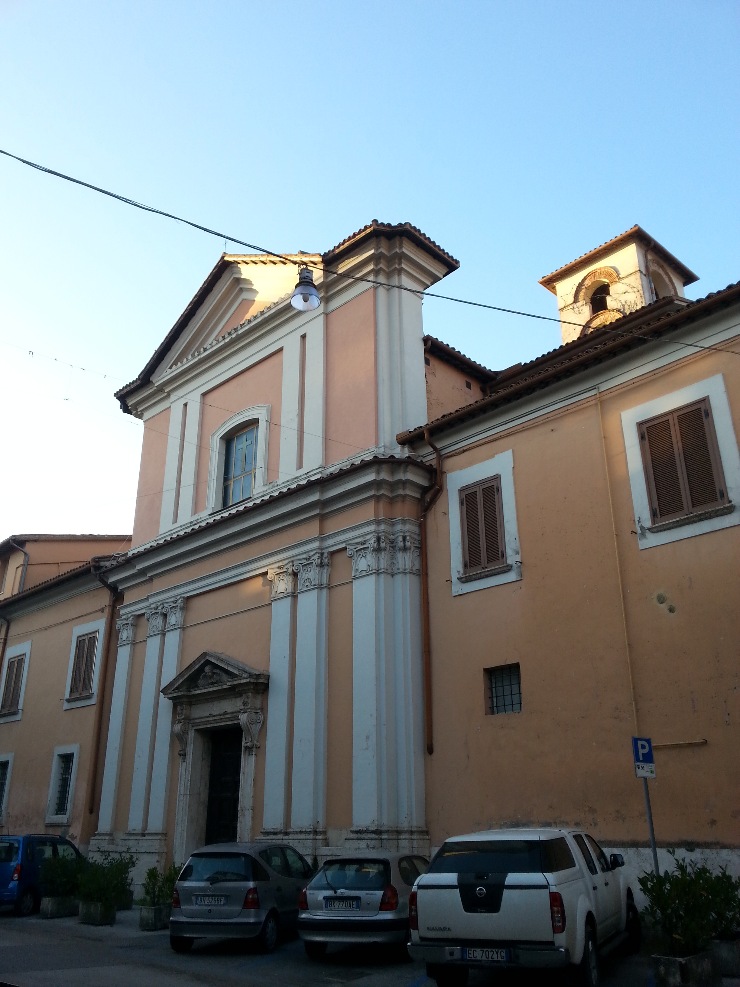 Saint Catherine church (part of the homonym monastery, now venue of Bambin Gesù institute) - Rieti, Lazio, Italy